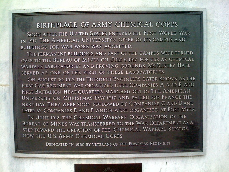 This photo is taken of McKinley Hall at American University. It shows a plaque which welcomes those entering the building and informs them of the history of the building and school in regard to Army Chemical Corps